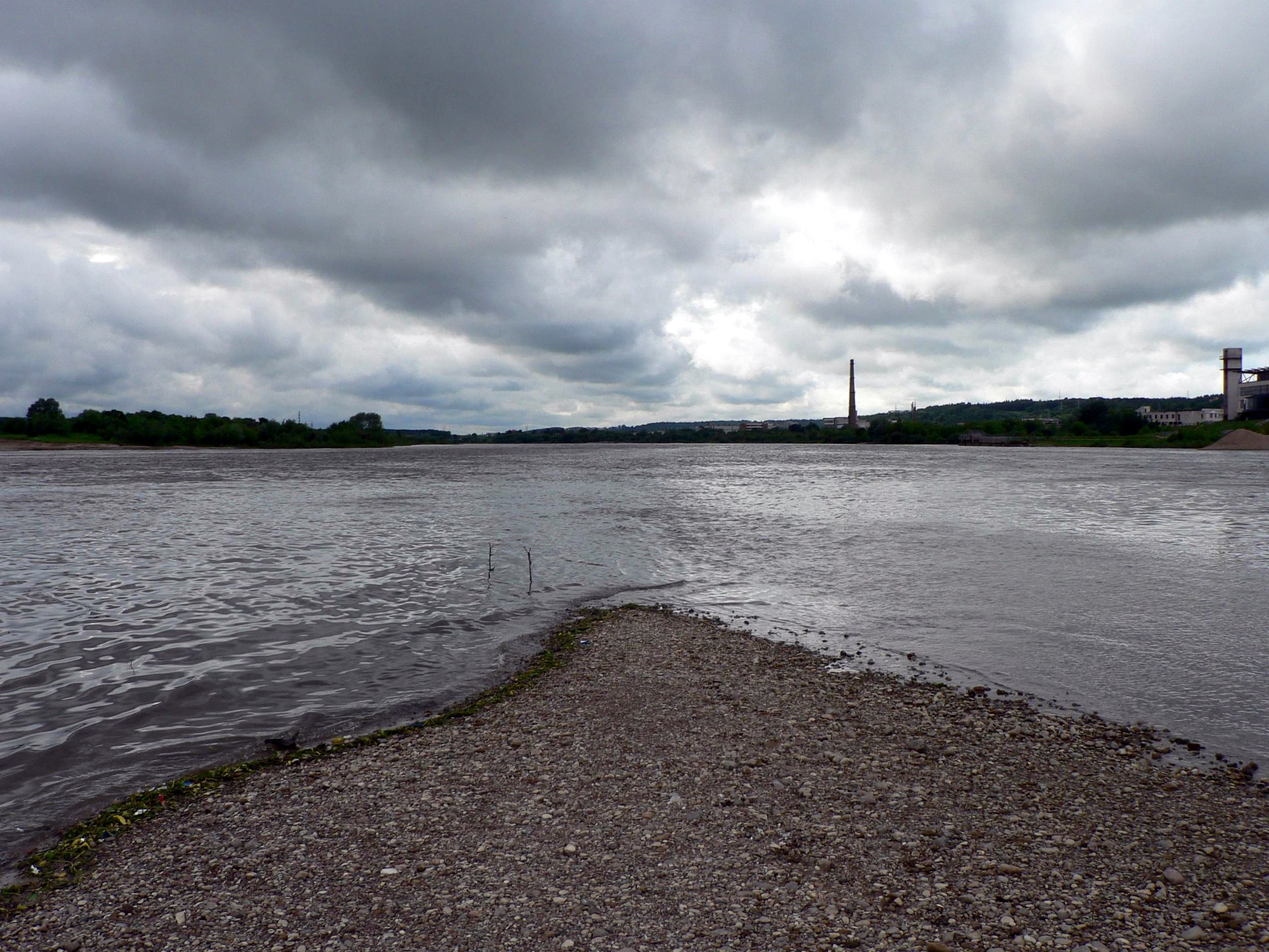 Confluence of Neman and Neris in Kaunas, Lithuania (Compare this view in summer -completely another atmosphere).